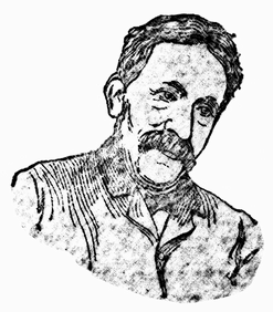 Sketch of the botanist James Eustace Bagnall